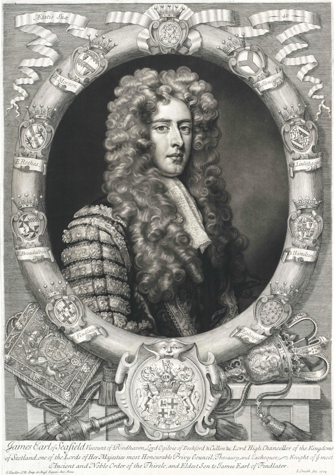 Portrait of James Ogilvy, 4th Earl of Findlater (1664-1730)